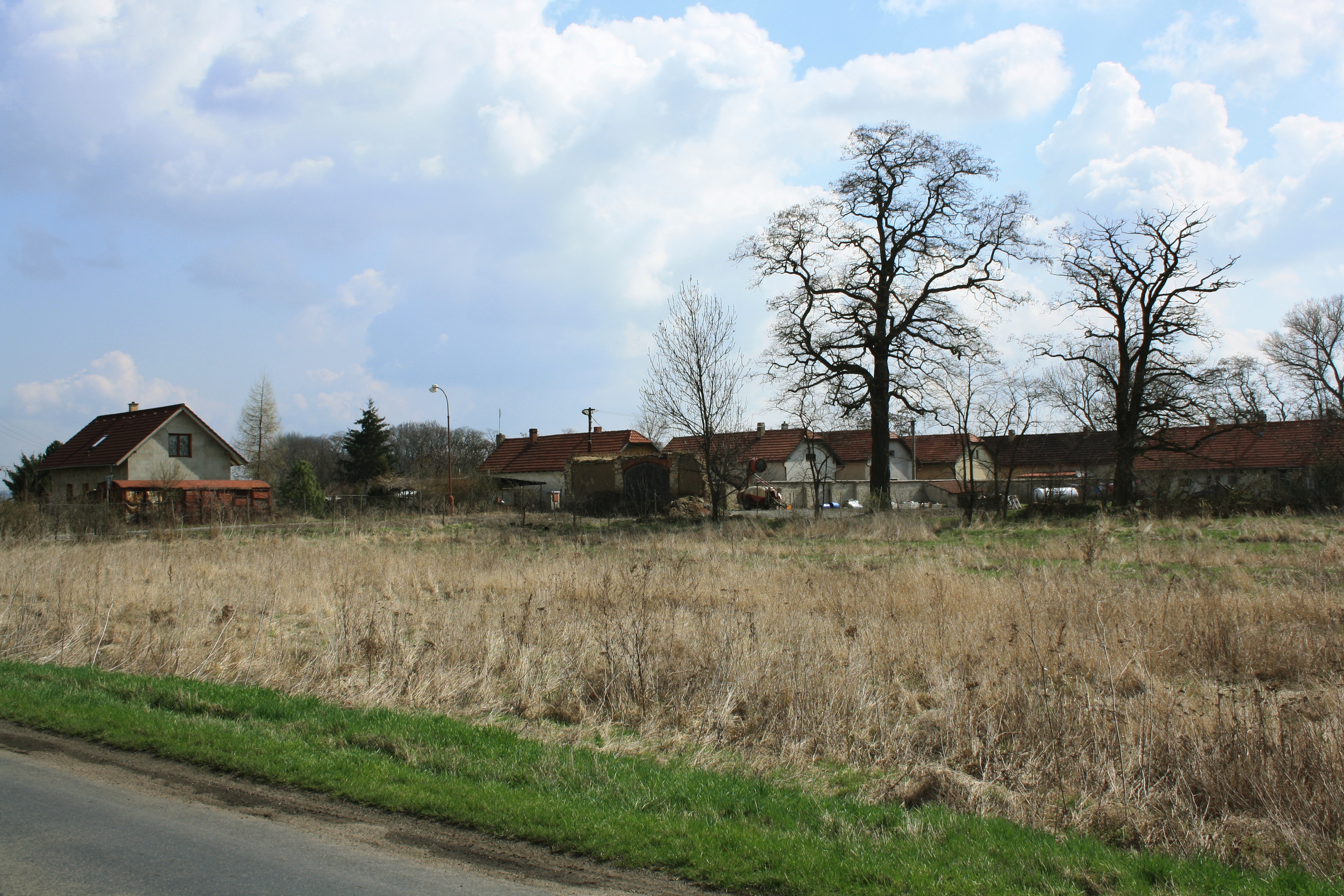 Chramostek, part of Lužec nad Vltavou, Mělník District. Central Bohemian Region, CZ